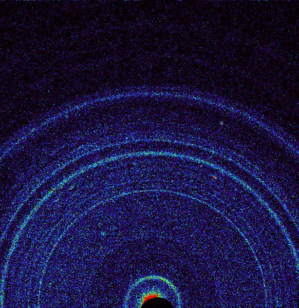 10.30.2012 First X-ray View of Martian Soil This graphic shows results of the first analysis of Martian soil by the Chemistry and Mineralogy (CheMin) experiment on NASA's Curiosity rover. The image reveals the presence of crystalline feldspar, pyroxenes and olivine mixed with some amorphous (non-crystalline) material. The soil sample, taken from a wind-blown deposit within Gale Crater, where the rover landed, is similar to volcanic soils in Hawaii. Curiosity scooped the soil on Oct. 15, 2012, the 69th sol, or Martian day, of operations. It was delivered to CheMin for X-ray diffraction analysis on October 17, 2012, the 71st sol. By directing an X-ray beam at a sample and recording how X-rays are scattered by the sample at an atomic level, the instrument can definitively identify and quantify minerals on Mars for the first time. Each mineral has a unique pattern of rings, or "fingerprint," revealing its presence. The colors in the graphic represent the intensity of the X-rays, with red being the most intense. Image Credit: NASA/JPL-Caltech/Ames